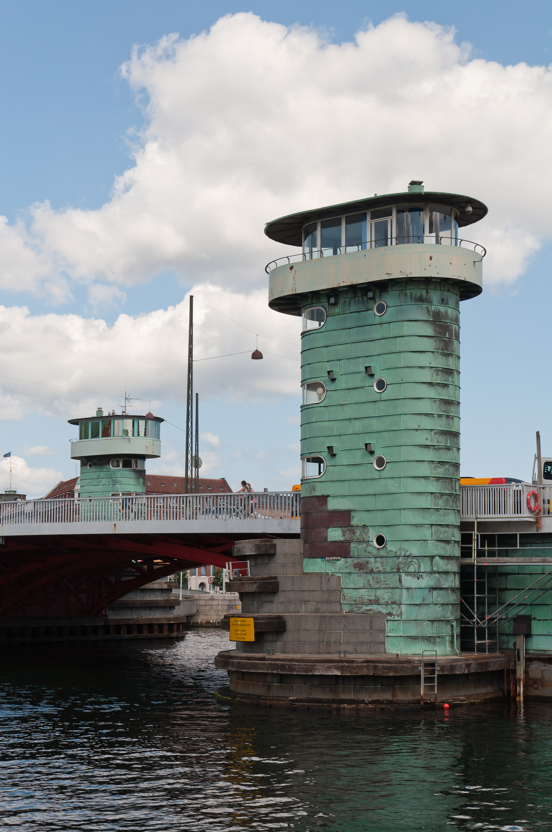 Knippelsbro bridge across the Inner Harbour of Copenhagen (Copenhagen Slotsholmen/Christianshavn).